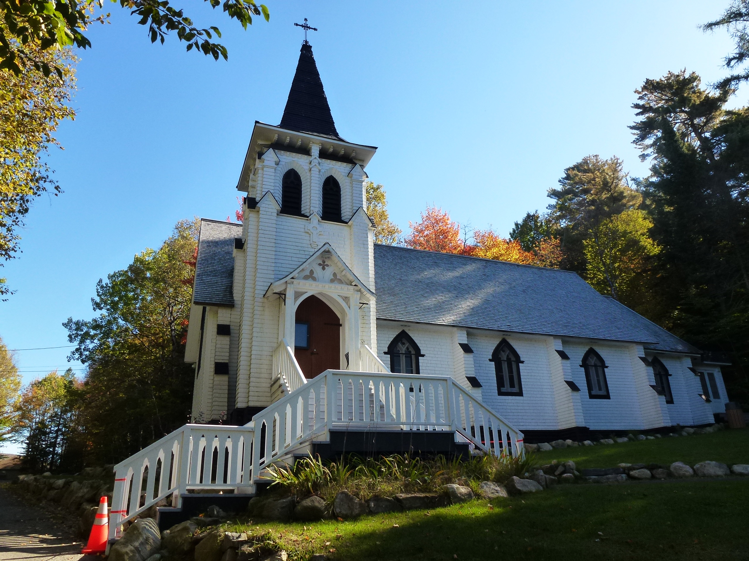 Chapelle Saint-Joseph-du-Lac